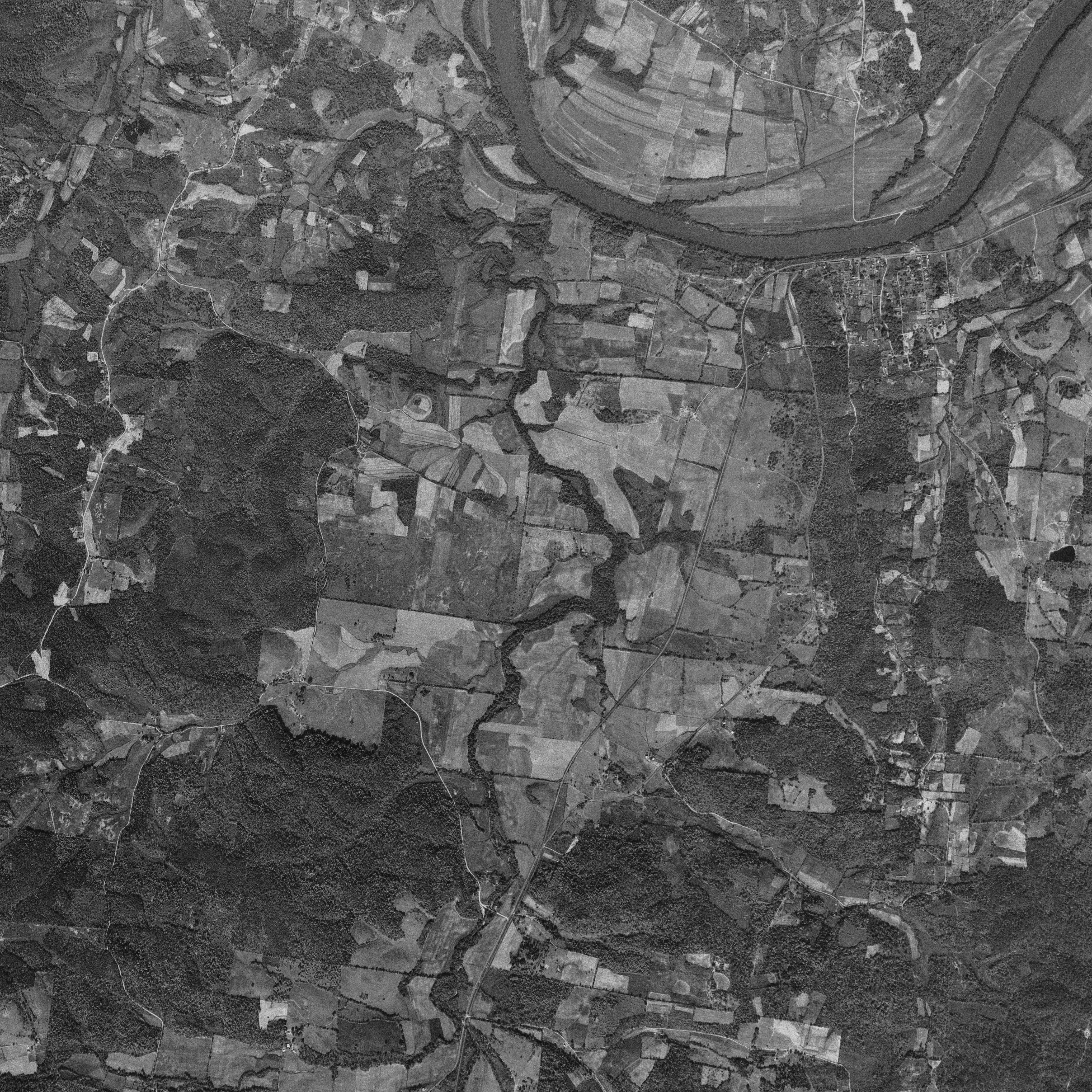 Air photo of central Wells Creek crater, near Cumberland City, Tennessee, in 1953. Wells Creek flows through the center of the photo. Part of the Cumberland River is visible in upper right. Much of the northern part of the crater is being mined at present day. N 36° 23' W 87° 40'.